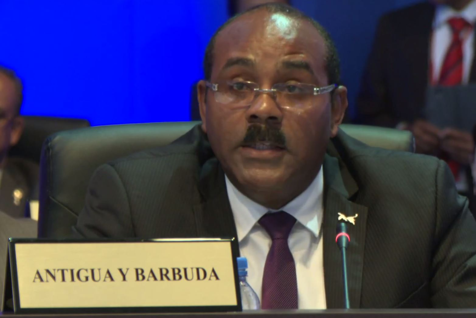 Cropped video still of Gaston Browne speaking at the 7th Summit of the Americas